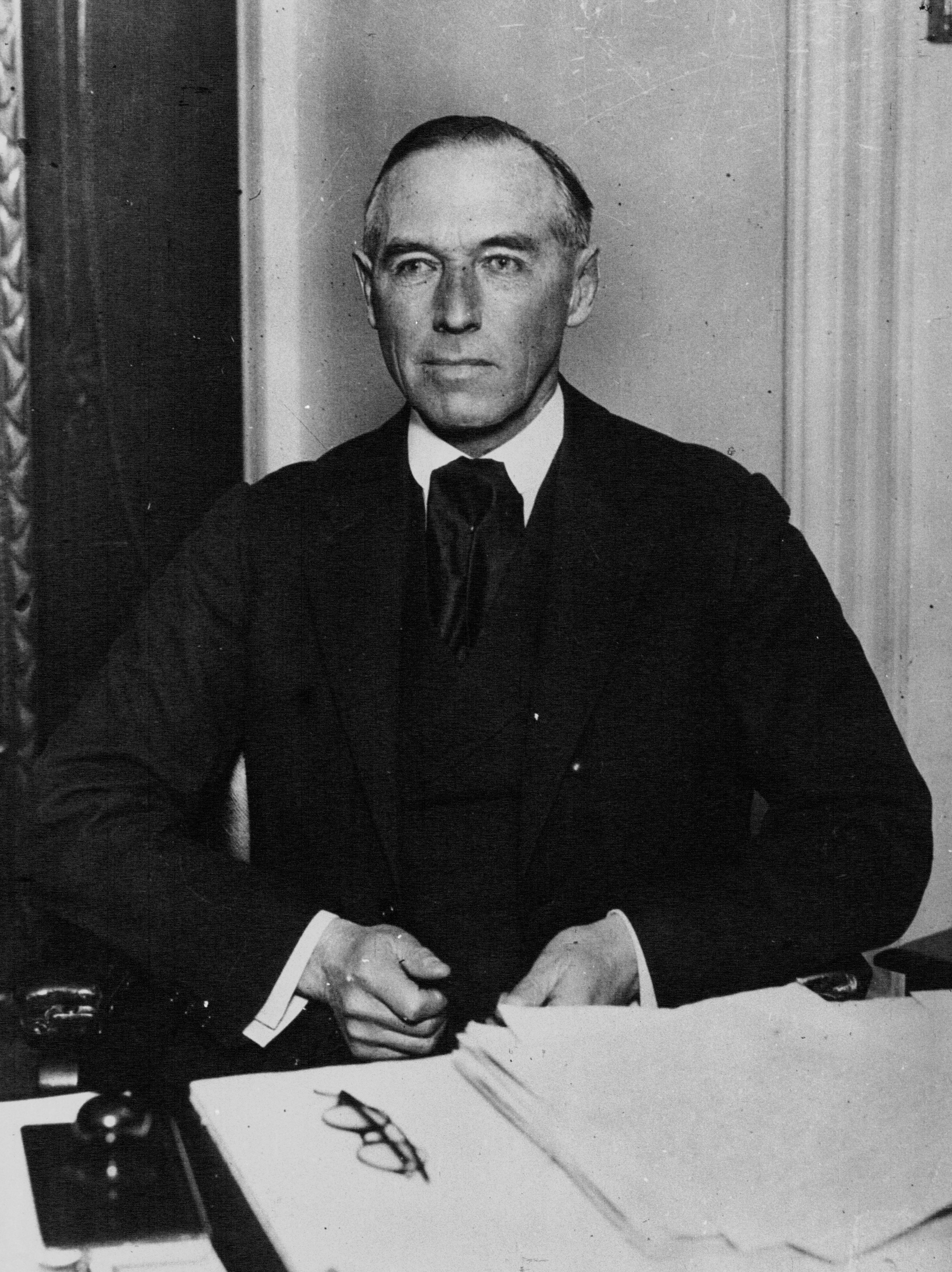 Royal Navy Admiral Ernle Chatfield (1873-1967) on his appointment as First Sea Lord in 1933.